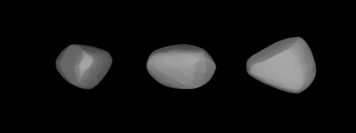 A three-dimensional model of 435 Ella that was computed using light curve inversion techniques.